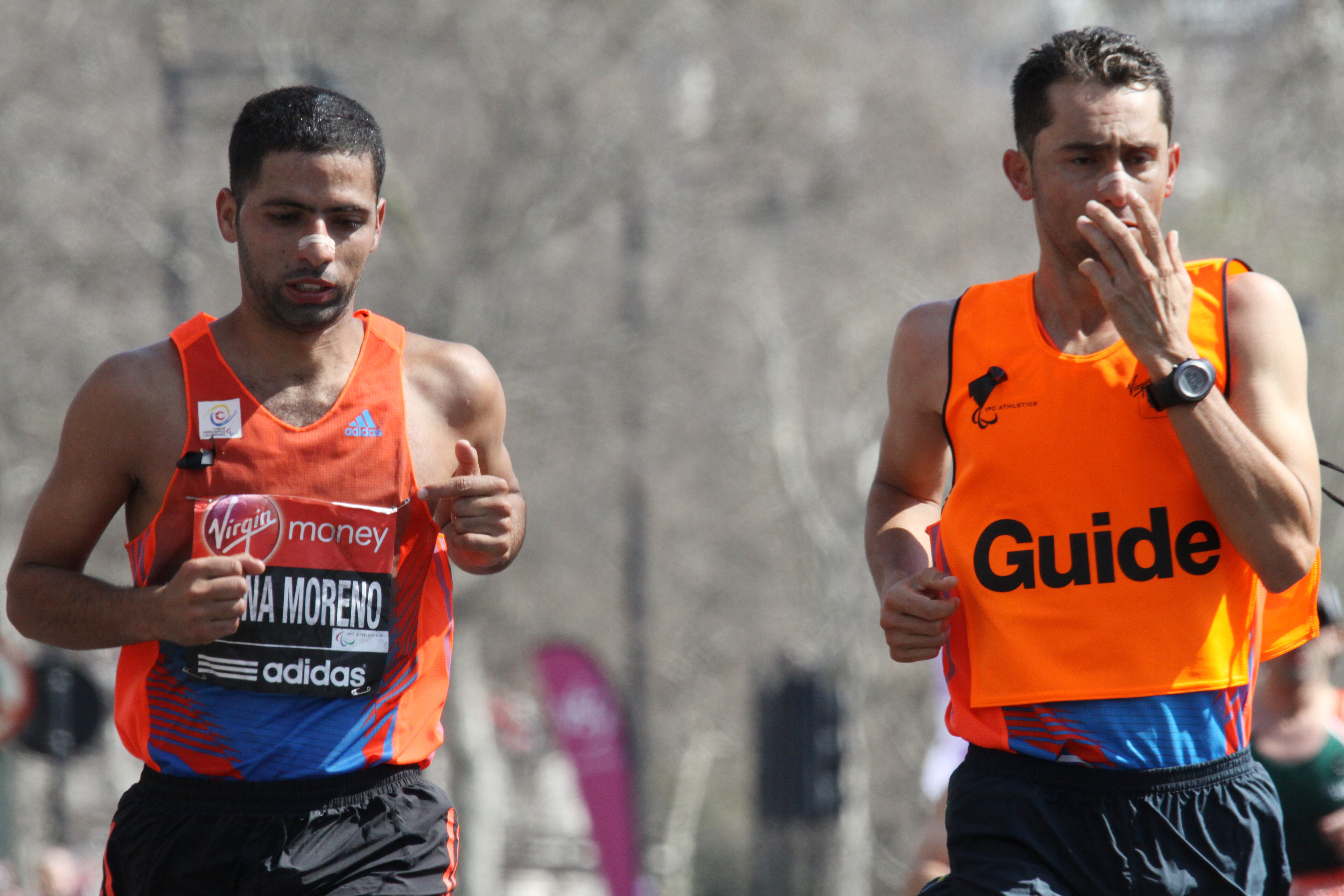 Elkin Alonso Serna Moreno during 2013 London Marathon, photographed at Victoria Embankment, London, Great Britain. The making of this file was supported by Wikimedia UK.